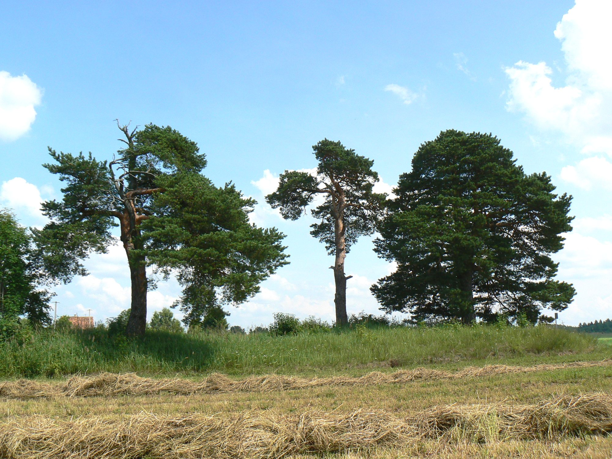 Meremäe pines in Estonia